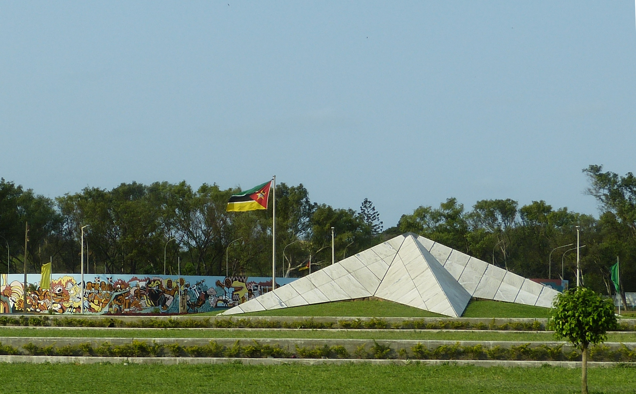 Square of the Mozambican Heroes ("Praça dos Heróis Moçambicanos"), Maputo, Mozambique